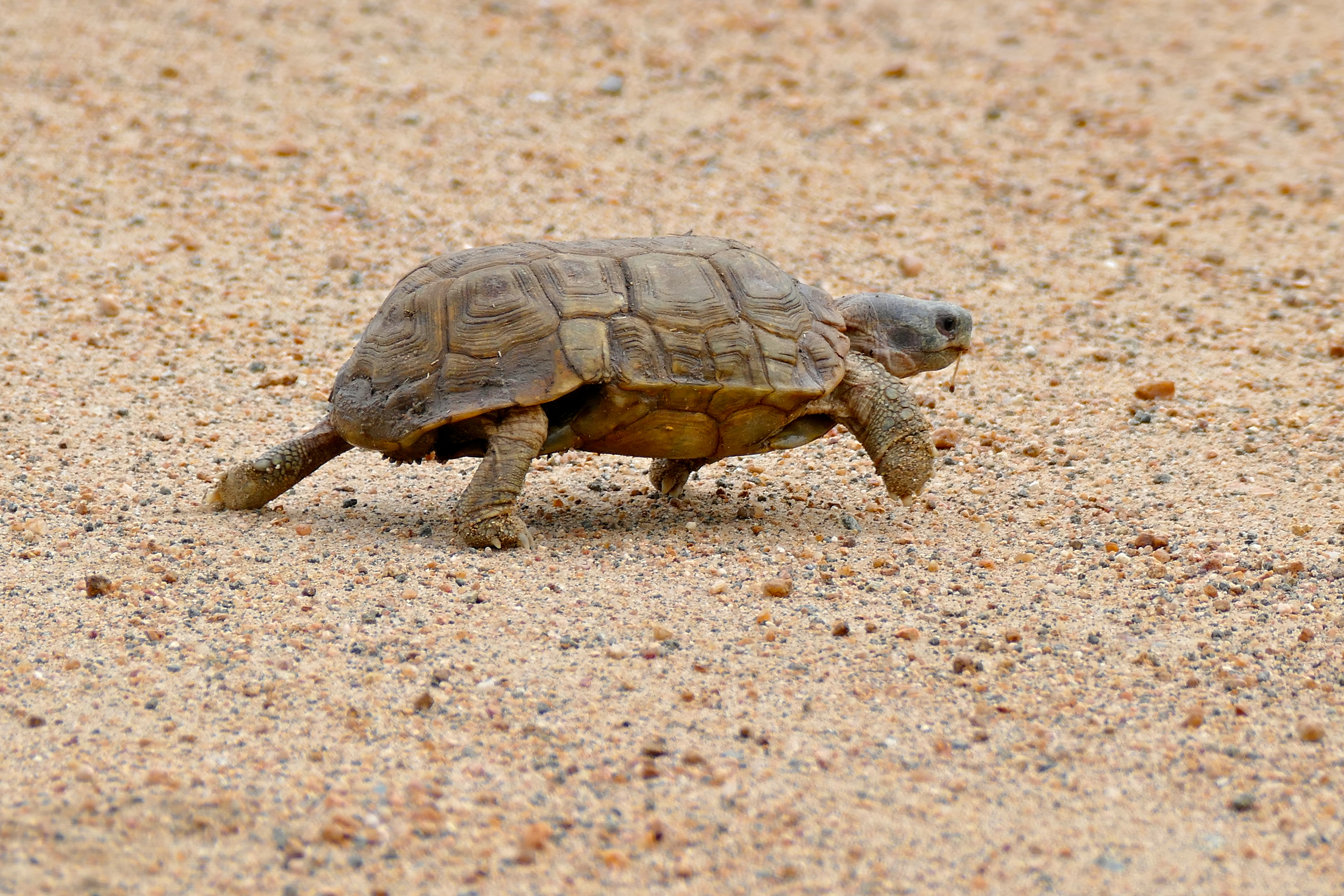 H2-2 Road East of Afsaal, Kruger NP, SOUTH AFRICA